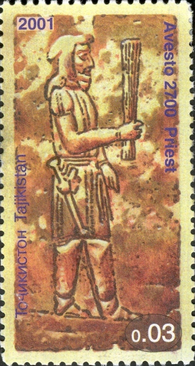 Stamps of Tajikistan